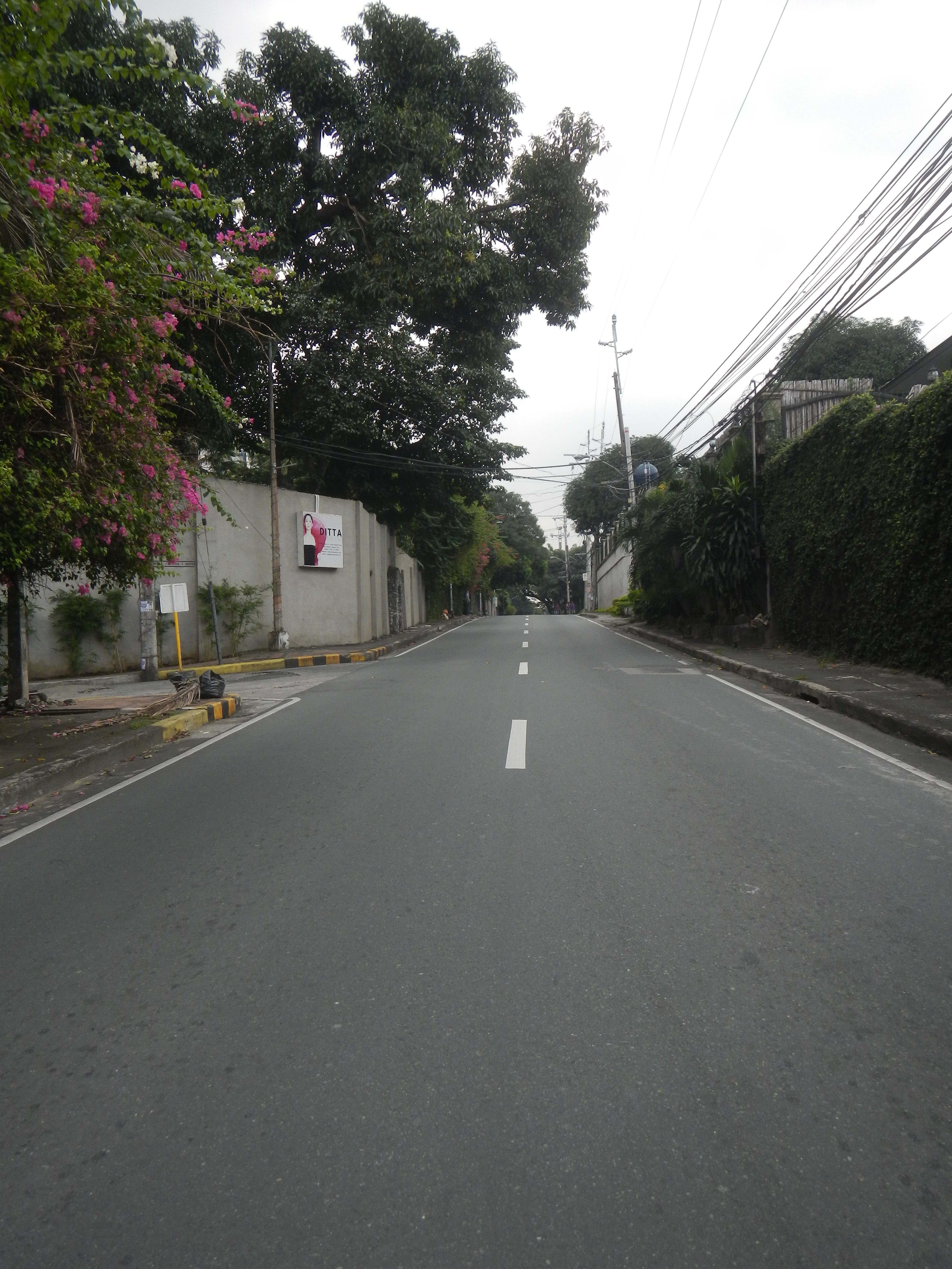 Balete Drive (E. Rodriguez, Sr. Avenue - Bouganvilla Street), Mariana, New Manila, Quezon City in front of Balete Drive Extension Balete Drive Haunted highway List of haunted locations in the Philippines Major roads in Metro Manila in the List of barangays of Metro Manila Legislative districts of Quezon City Districts 3, Barangays of Quezon City, Barangay Kristong Hari 14°37'28"N 121°1'31"E beside Mariana 14°37'1"N 121°2'13"E New Manila, Quezon City upon the List of rivers and estuaries in Metro Manila Diliman Creek from San Juan River (Metro Manila) Estuaries in Cubao, Quezon City along Aurora Boulevard (Note: Judge Florentino Floro, the owner, to repeat, Donor Florentino Floro of all these photos hereby donate gratuitously, freely and unconditionally all these photos to and for Wikimedia Commons, exclusively, for public use of the public domain, and again without any condition whatsoever).